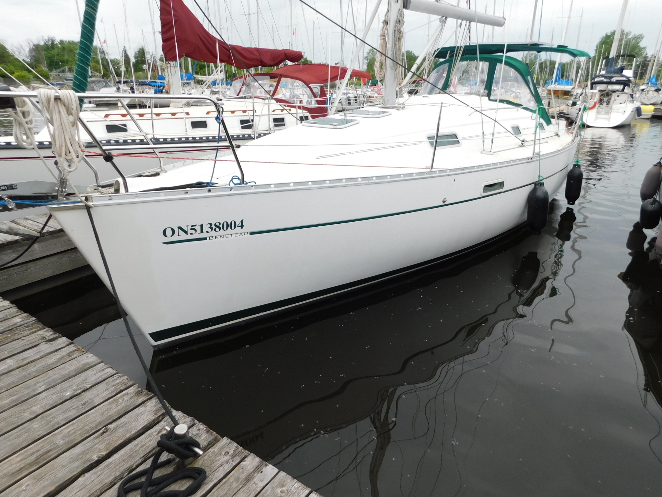 A Beneteau 331 sailboat named Me Minou.